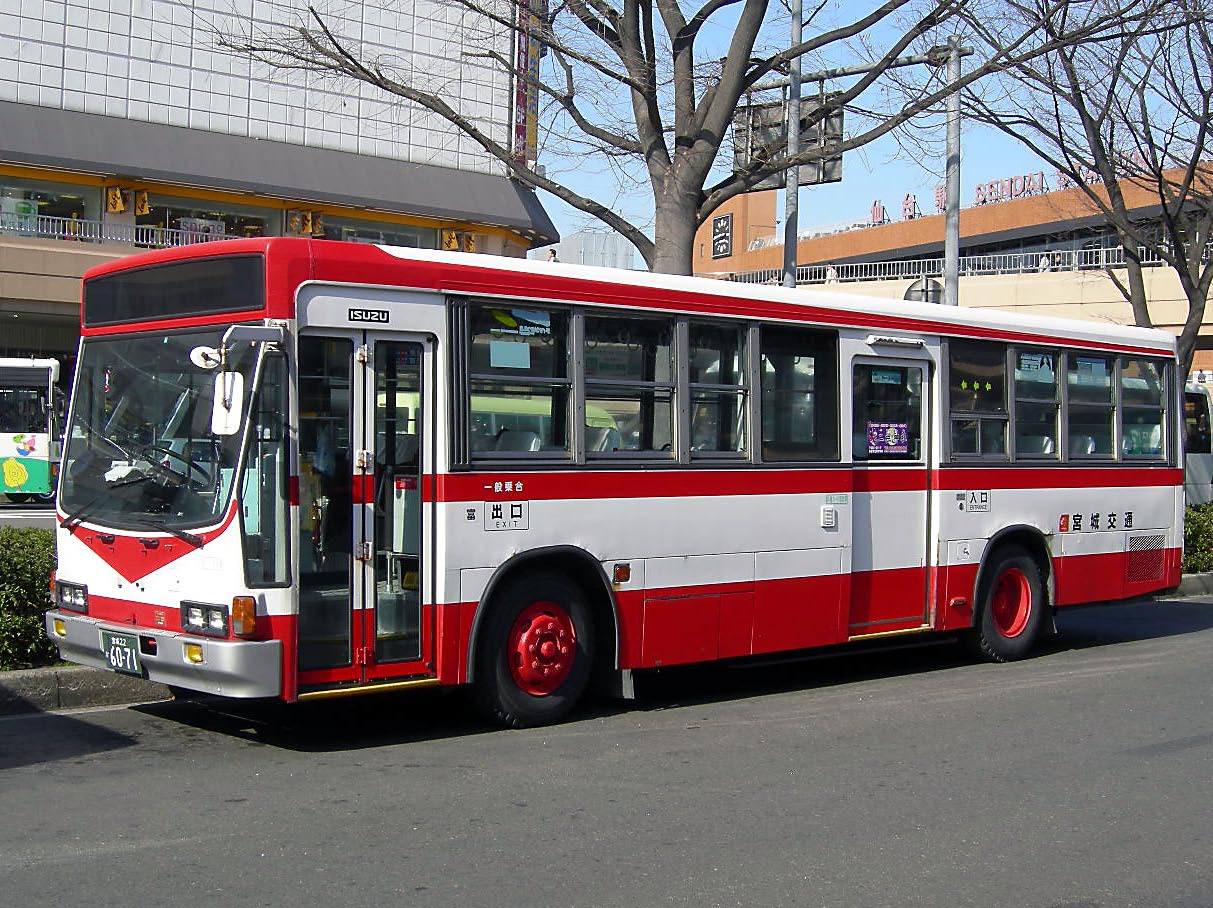 Miyagi Kotsu Isuzu U-LV224M(IK body "CUBIC"LV)